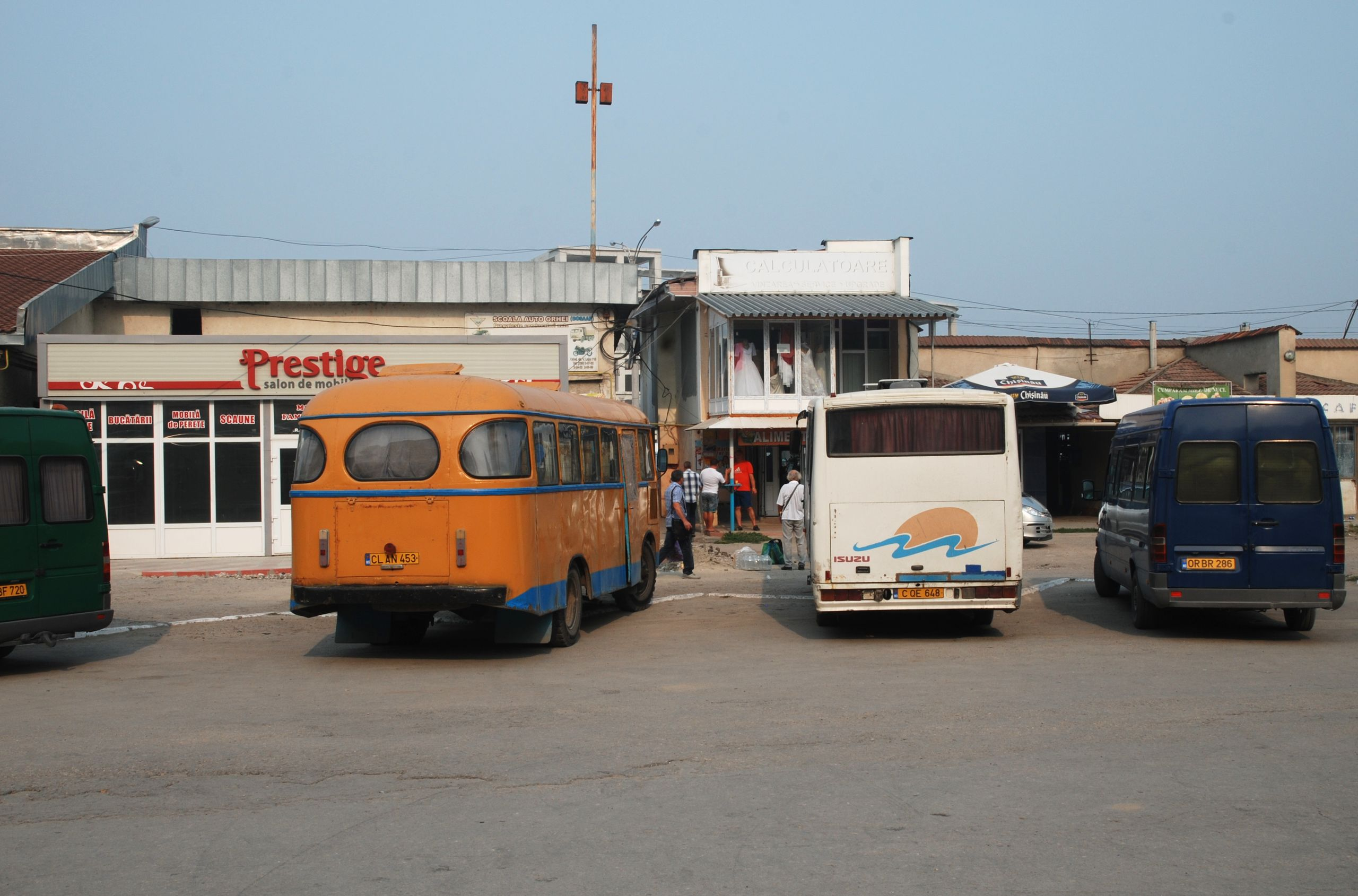 Orhei, bus station